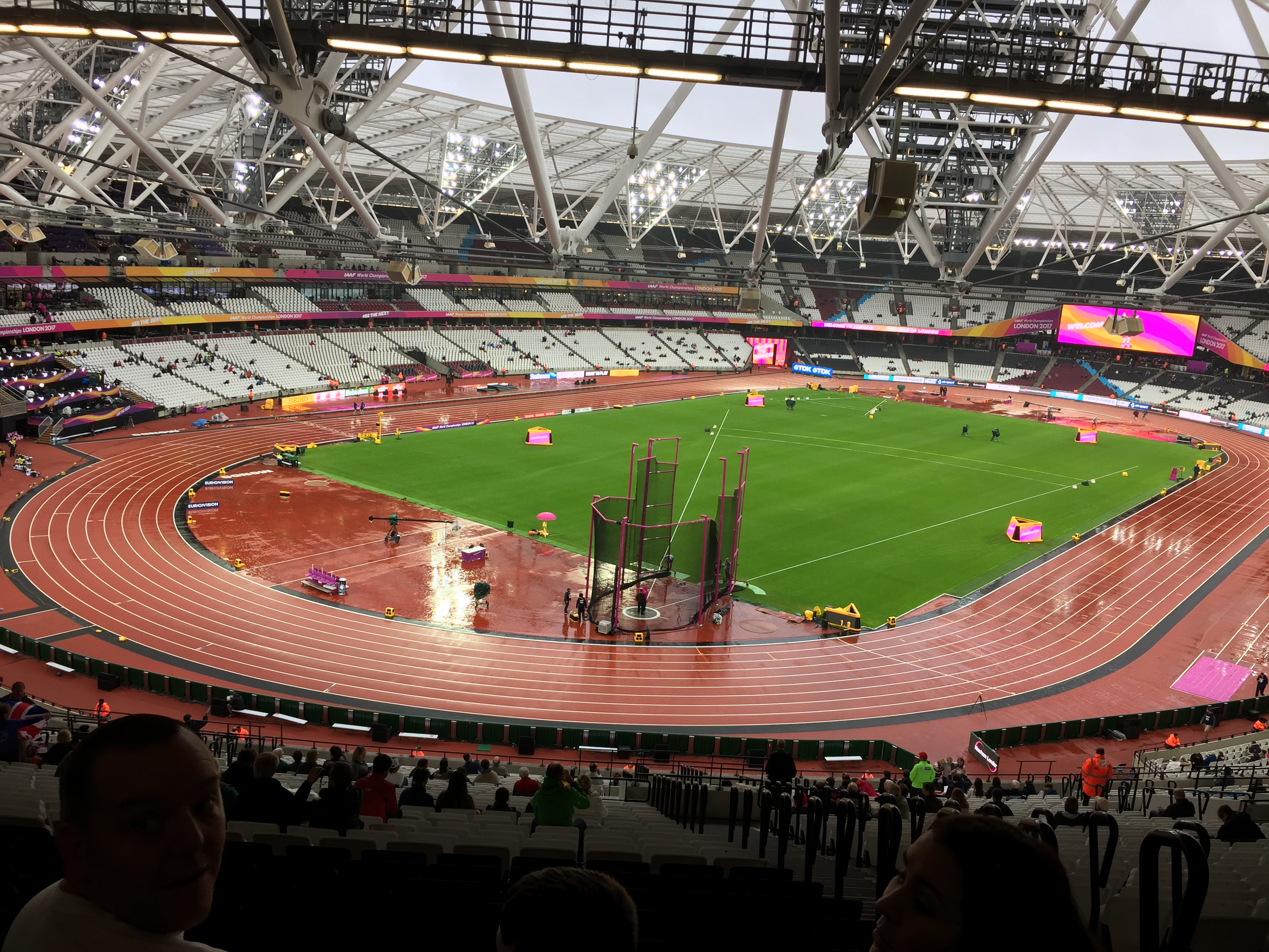 A very wet Olympic stadium!